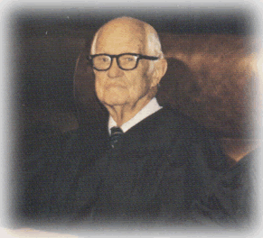 Portrait of Judge Elbert Tuttle, taken by United States Court of Appeals for the Eleventh Circuit, from here. It is a work of the federal judiciary, so it is in the public domain.